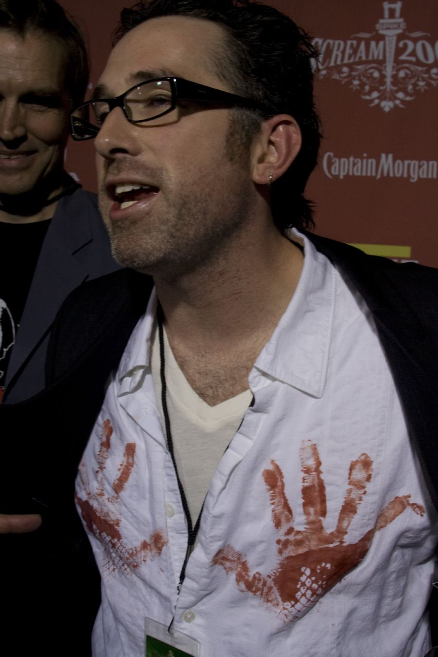 American film director Darren Lynn Bousman. Taken at the 2007 Scream Awards.